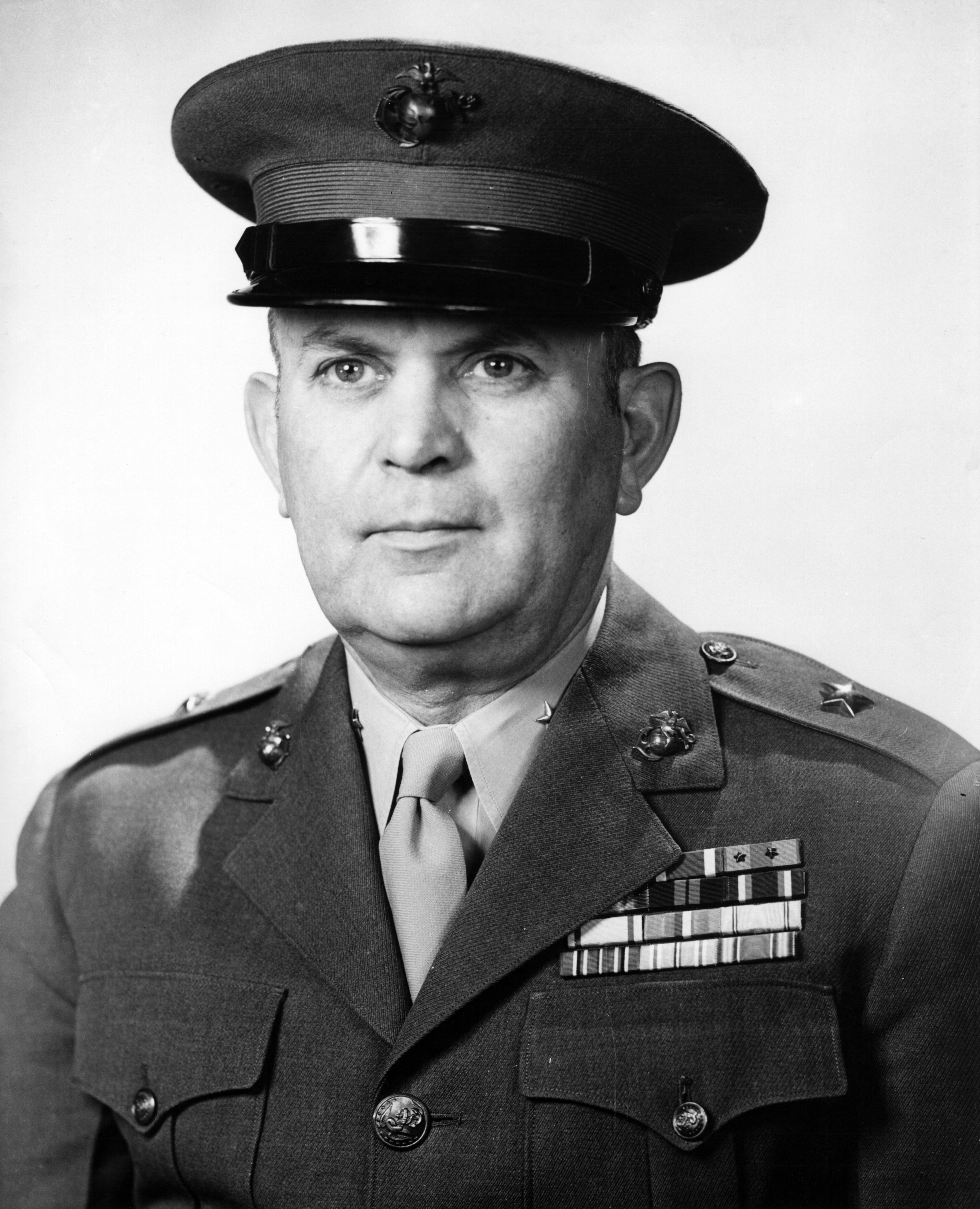 Merritt Barton Curtis, (August 31, 1892 - May 16, 1966) was a United States Marine Corps Officer with the rank of Brigadier General during World War II. He was also lawyer who in 1960 ran for President of the United States in Washington with B. N. Miller and vice-president in Texas with Charles L. Sullivan under the Constitution Party banner. Curtis also ran for vice-president in Michigan with Lars Daly under the Tax Cut banner.